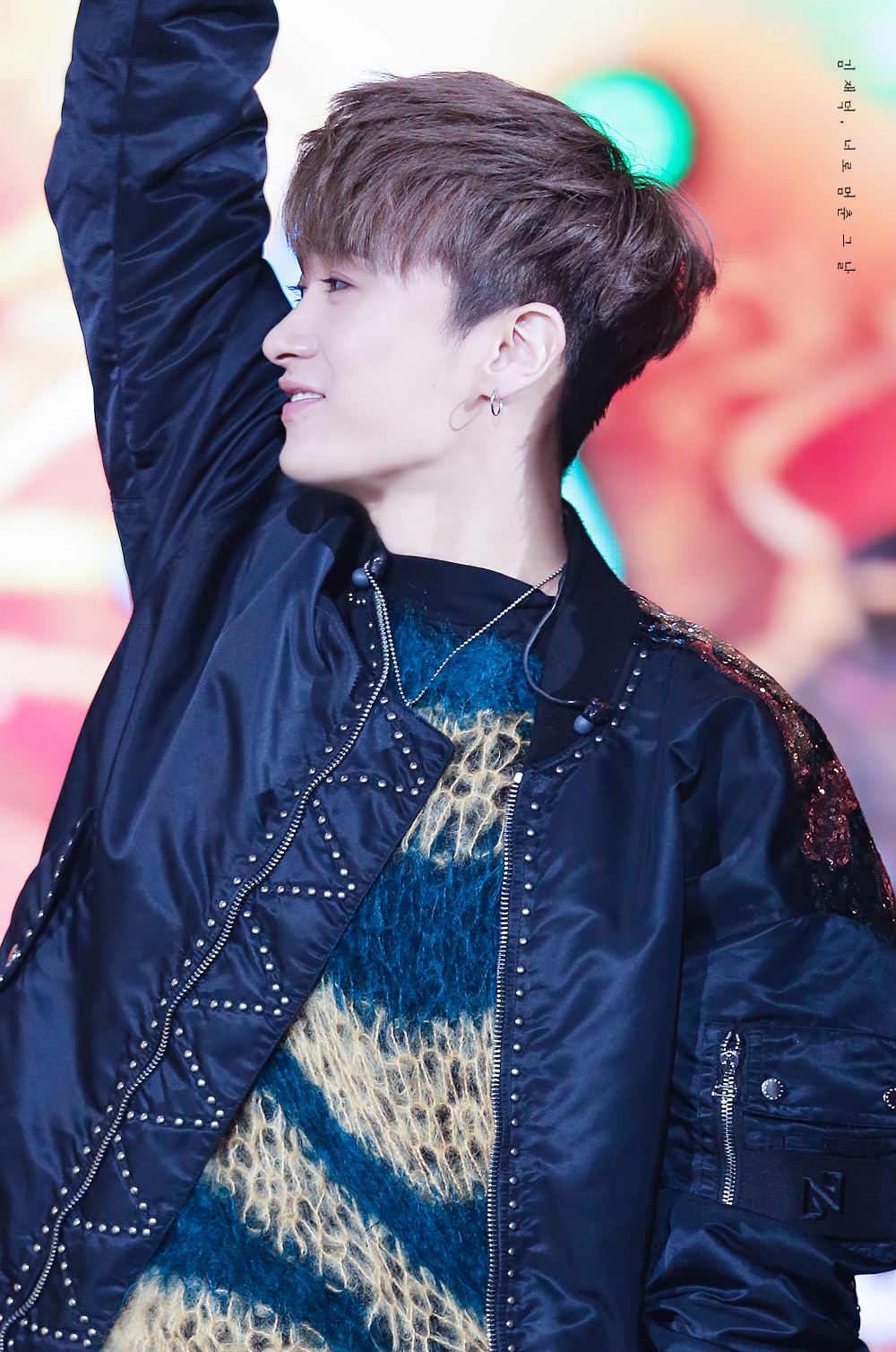 161119 Kim Jae Duck at 2016 Melon Music Awards